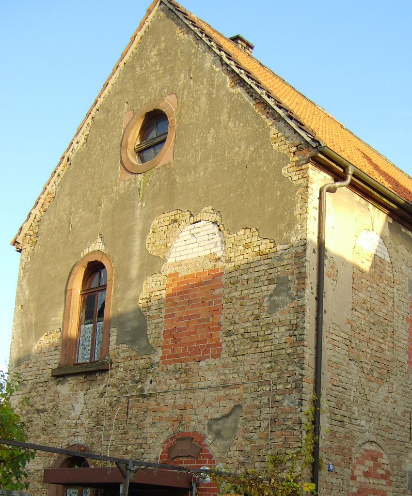 Former synagogue of Roxheim (2008), now destroyed